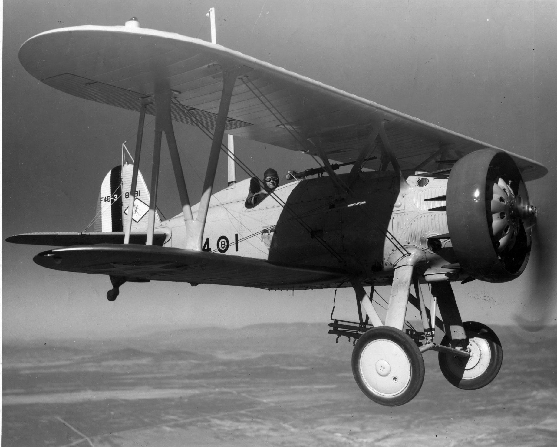 Boeing F4B-4, VB-4M